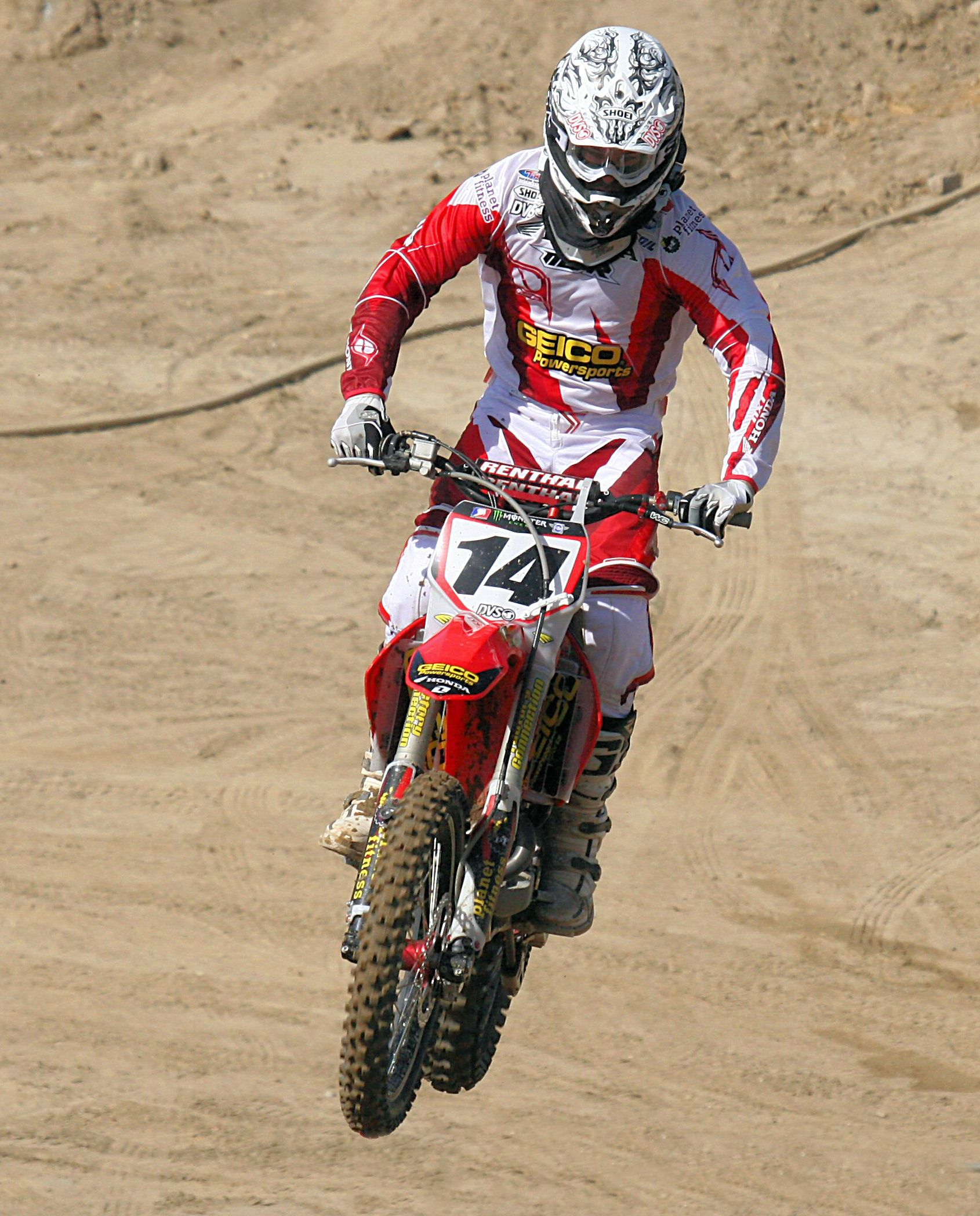 Kevin Windham at Glen Helen Raceway, in San Bernardino, California, United States